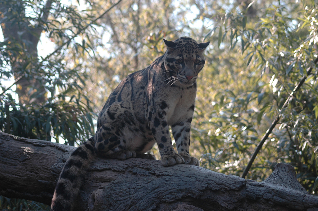 Clouded Leopard